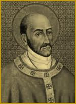 Summary Description: Saint Turibius de Mongrovejo